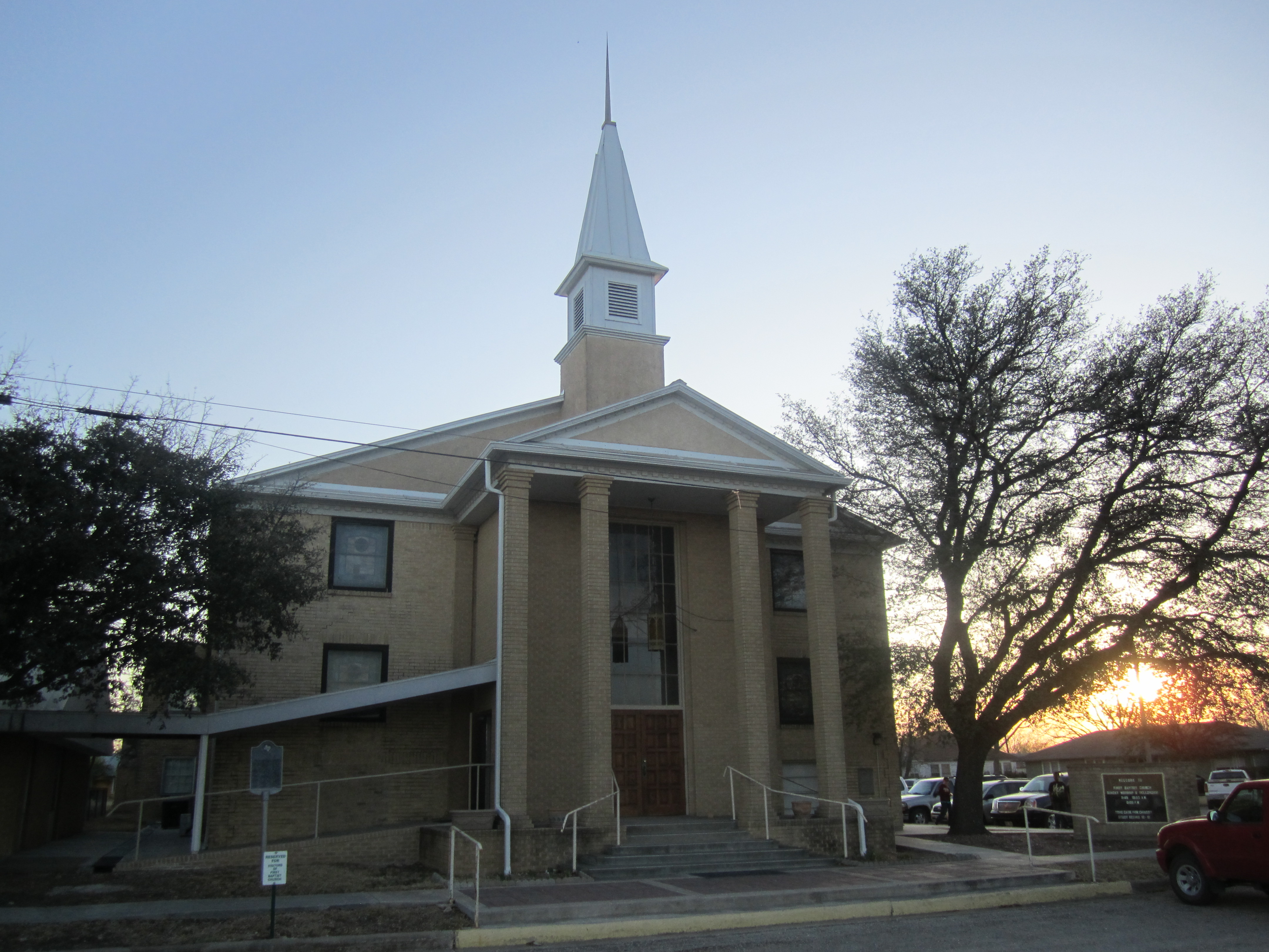 I took photo with Canon camera in Eldorado, TX.